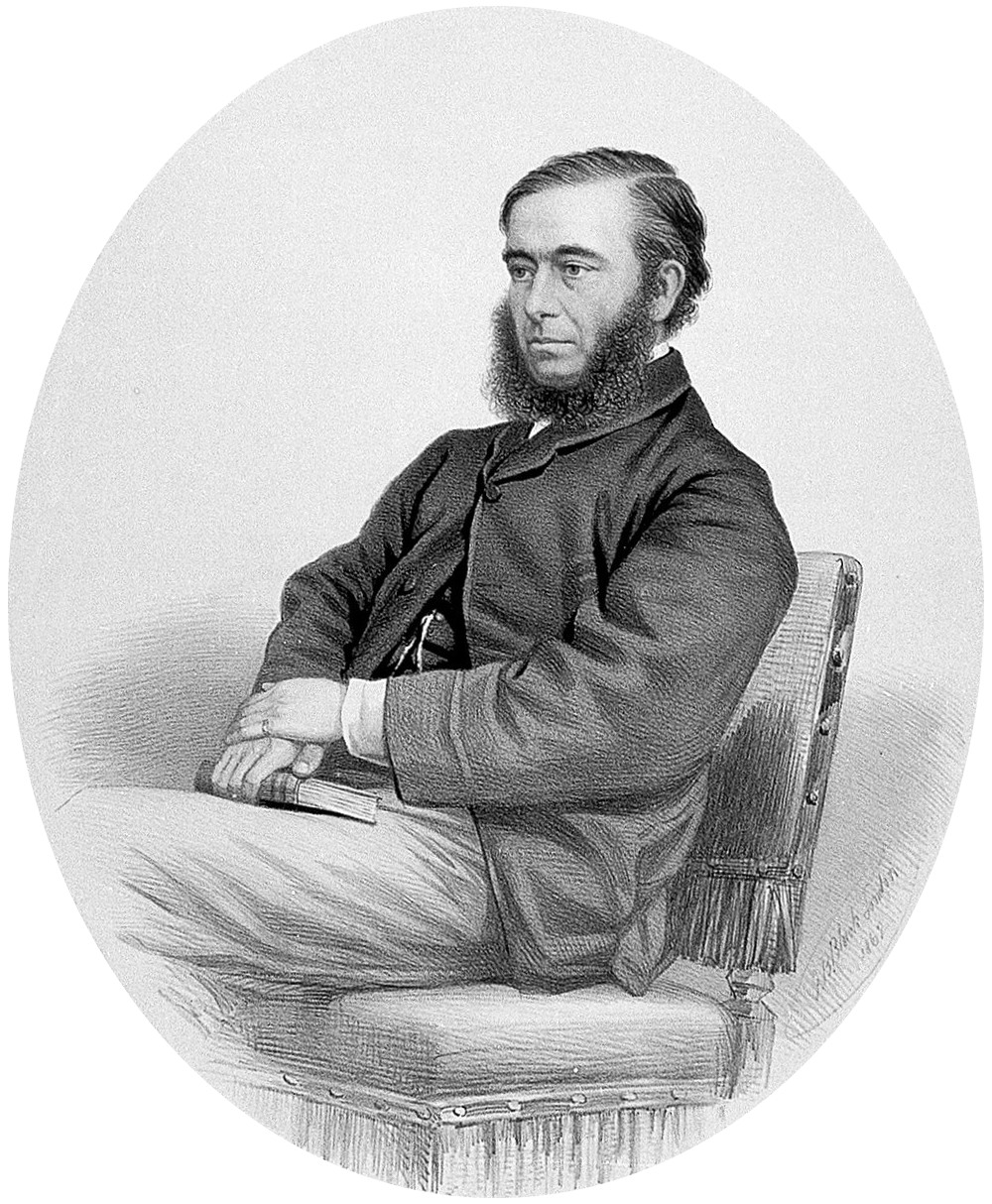 Portrait of William Budd from an original lithograph published by A.B. Black, 1862, in the Royal Society of Medicine